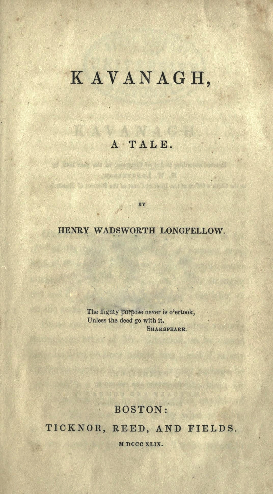 1st ed title pg